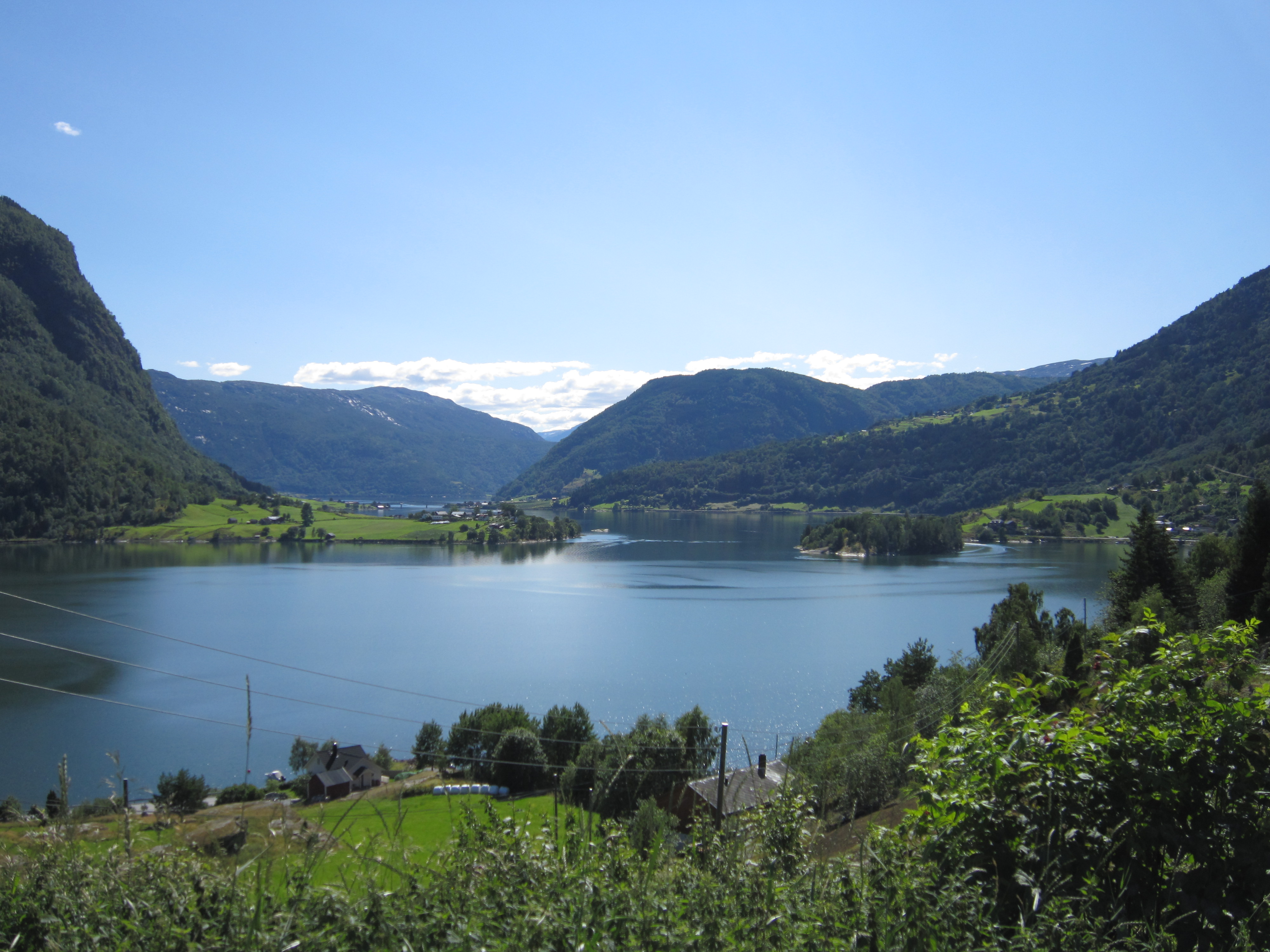 Picture of the fjord "Barnesfjorden" in the west coast of Norway, in Sogn og Fjordane, Sogndal.